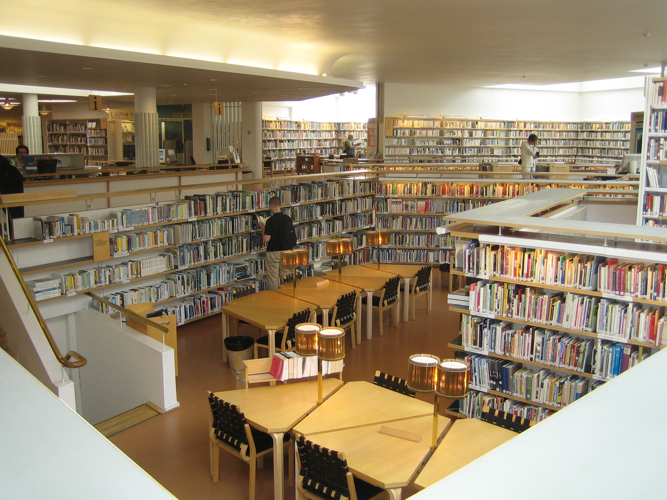 A picture inside the main building of the public library of Rovaniemi, Finland. The building is designed by Alvar Aalto. Address: Jorma Eton tie 6, Rovaniemi, Finland.